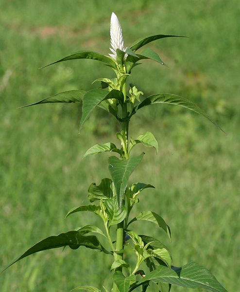 Celosia argentea - Silver-spiked cockscomb, Plumed cockscomb, Kombada, Silver Cockscomb, Flamingo Feathers, Wheat Celosia • Marathi: कुरडू Kurdu- in Hyderabad, India.